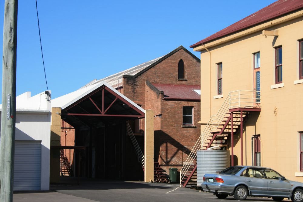 Middle warehouse, Gataker's Warehouse Complex (2009)